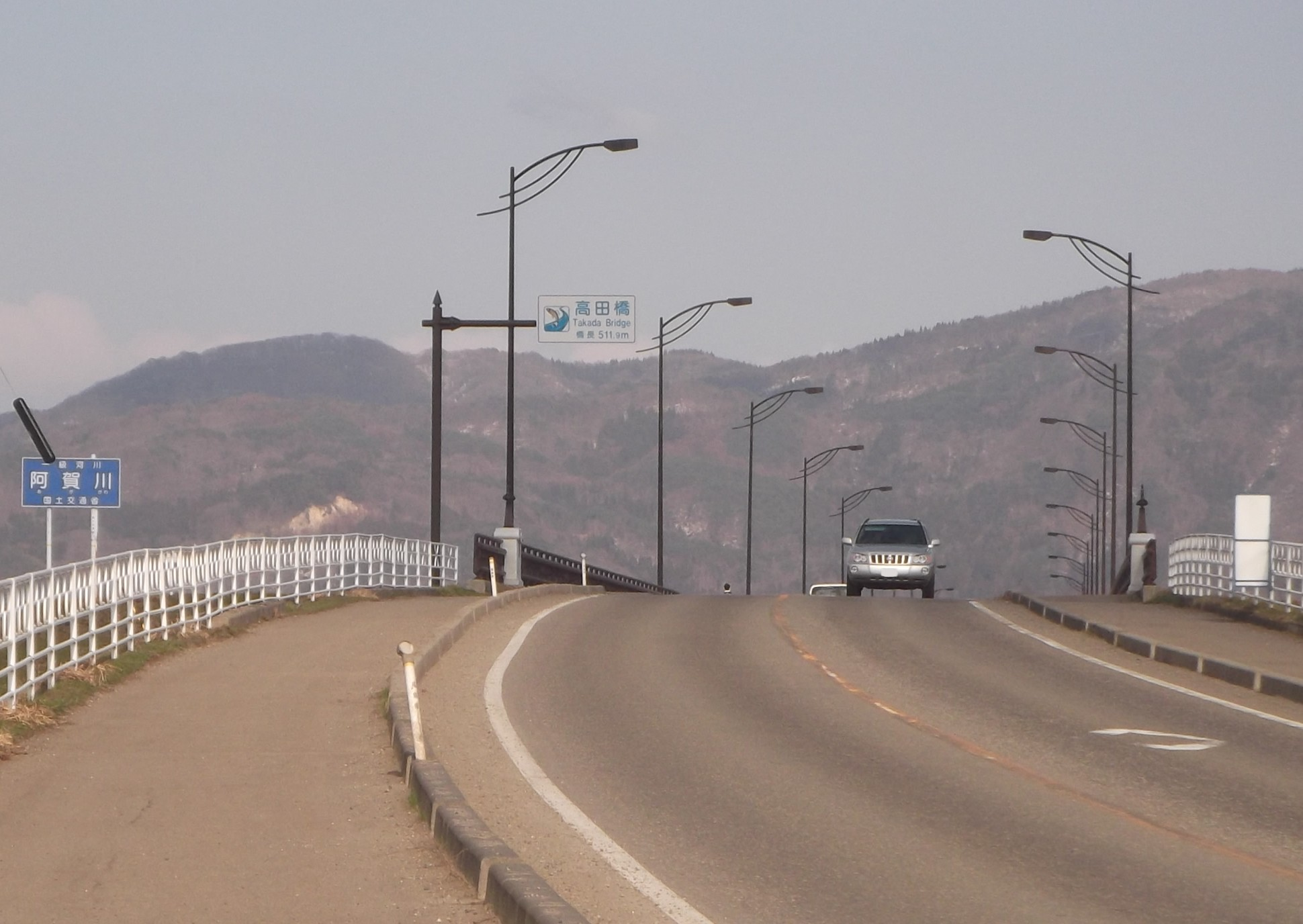 Landscape of Takadabashi at Aizuwakamatsu, Fukushima. It was taken from the side of Kita-Aizu town, Aizuwakamatsu.